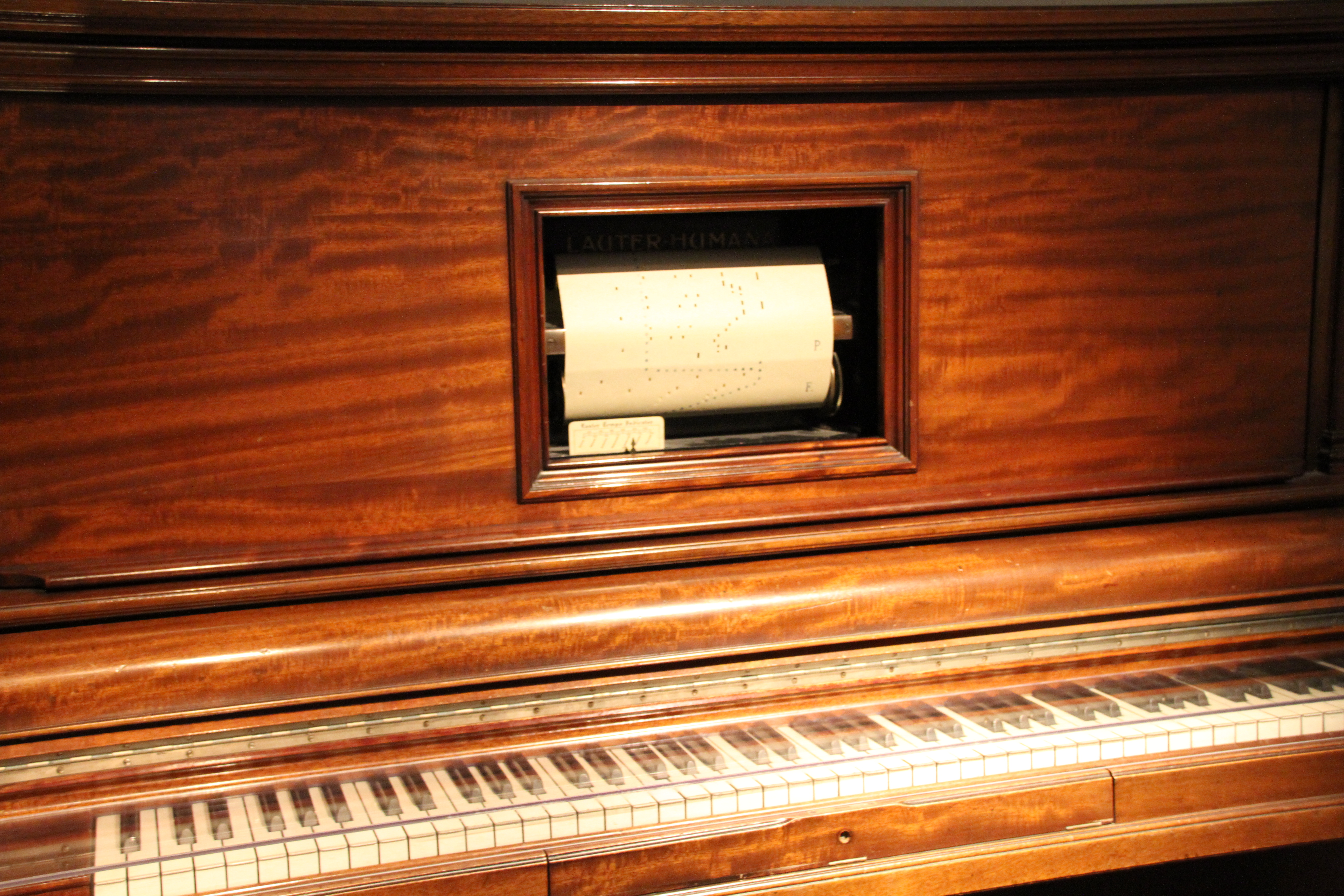 Player piano (automated piano) produced ny Lauter (Newark, NJ), from the year 1906. Used in Norway.